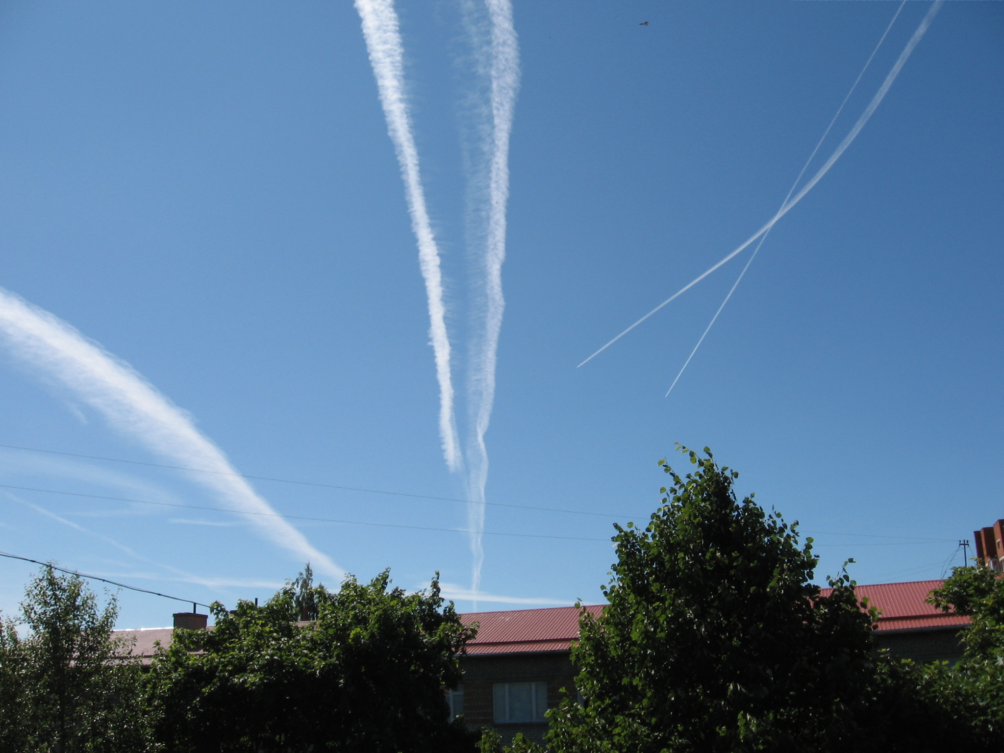 Contrails. Narva, Estonia